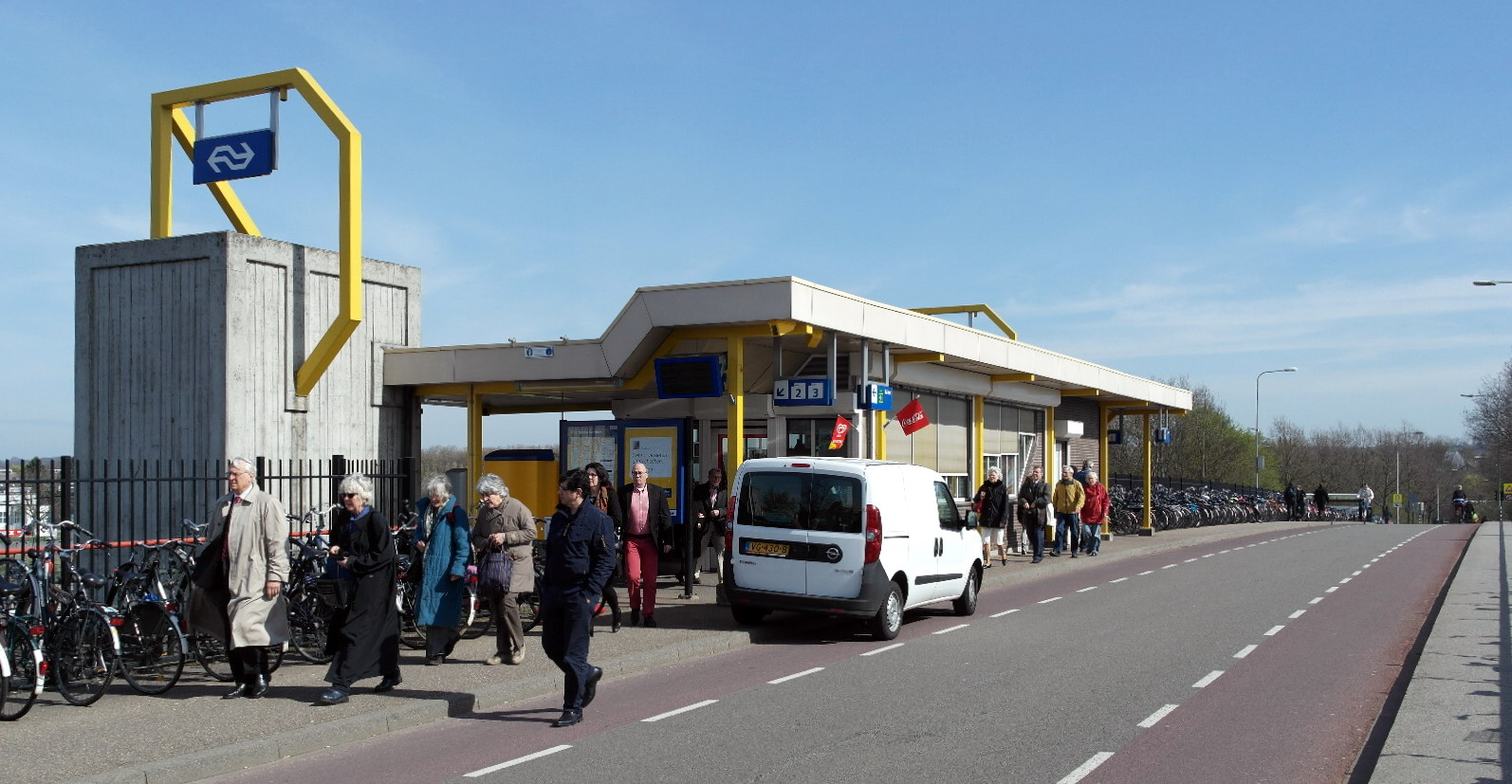 Maastricht, the Netherlands. View of Station Maastricht Randwyck, a small train station on the railway line Maastricht-Liège. The station is designed to connect the platforms with the bridge over the railway and the motorway A2 between Heer and Randwyck.